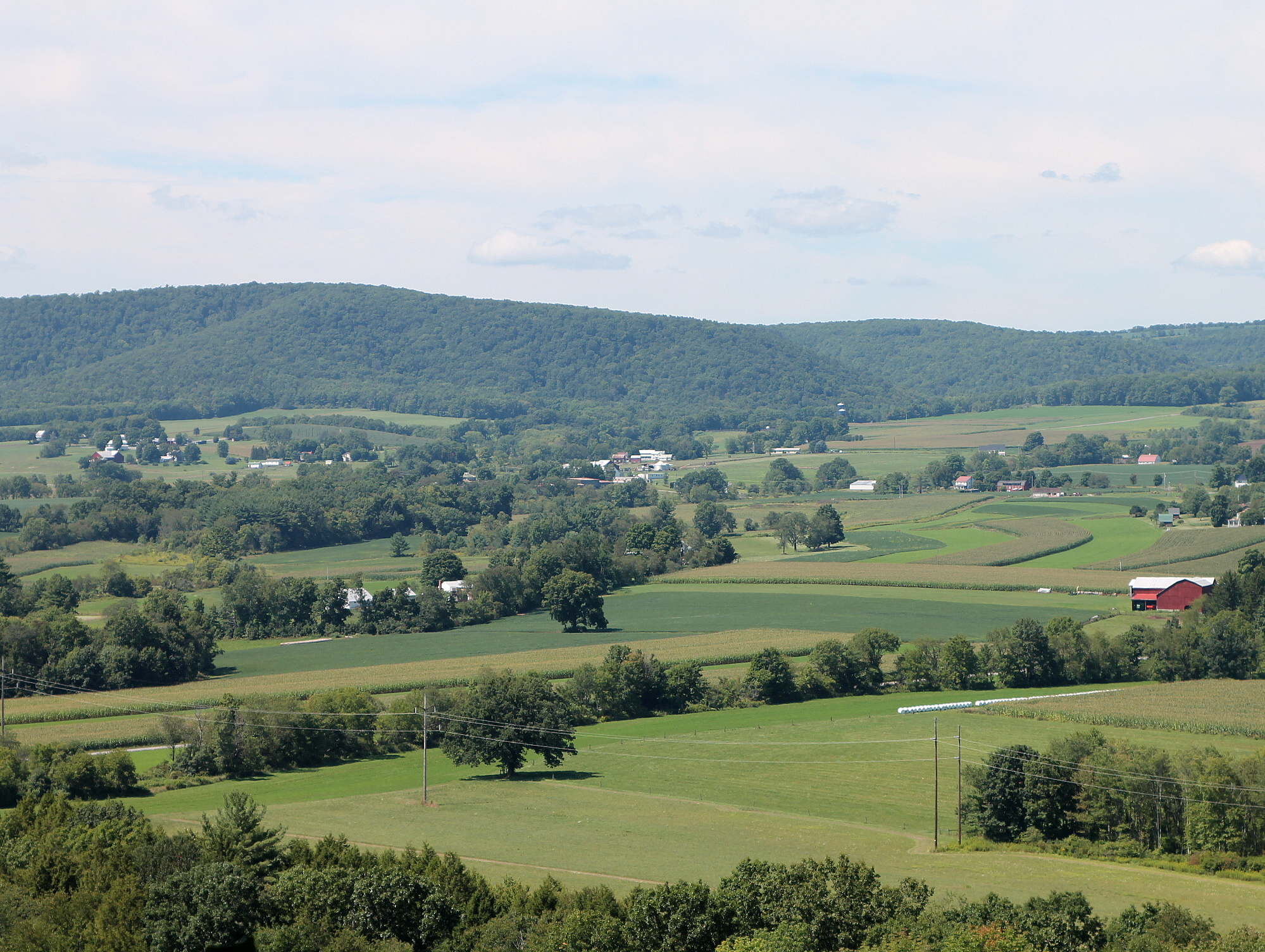 Greenwood Valley looking northwest from Turkey Path Road